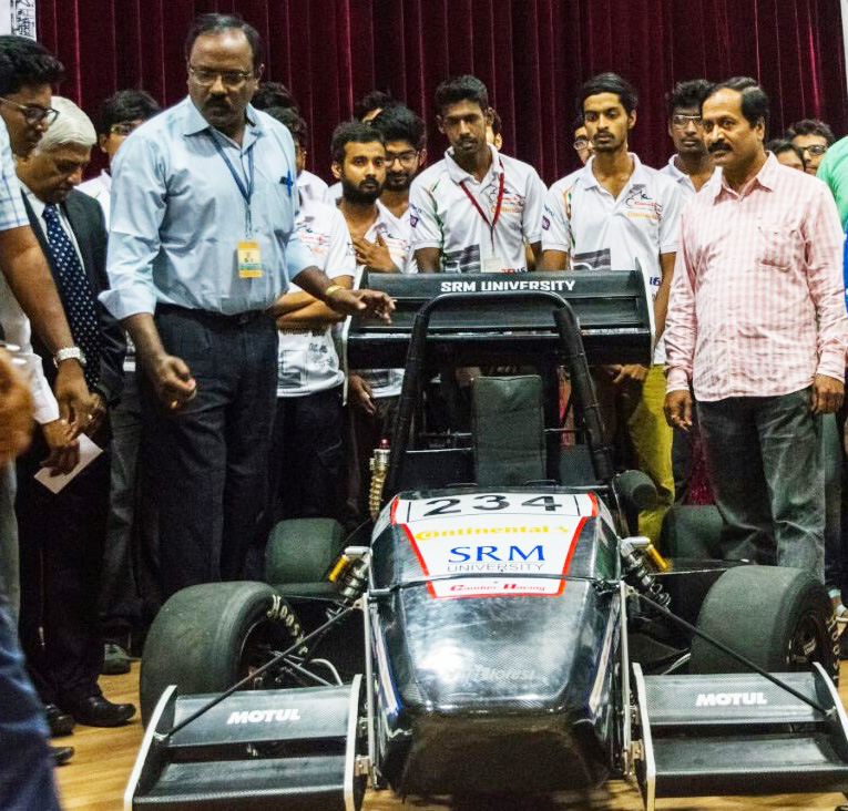 Rajadurai with SRM camber racing team, discussing about performance of race vehicle